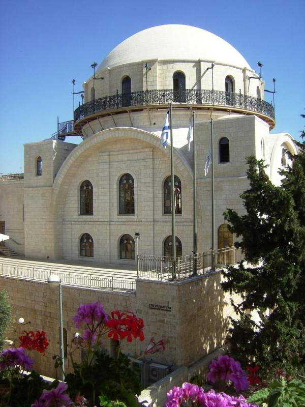 Exterior of the Hurva Synagogue, Old City, Jerusalem